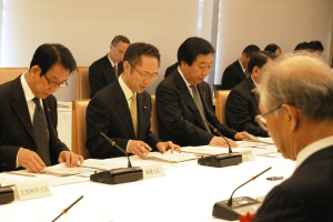 Yoshihiko Noda, Prime Minister, attended a meeting of the Council for Science and Technology Policy, Cabinet Office with Tatsuo Kawabata, Minister for Internal Affairs and Communications, Motohisa Furukawa, Minister of State for Science and Technology Policy, and Tasuku Honjo, Member of the Council for Science and Technology Policy, Cabinet Office, at the Prime Minister's Official Residence in Chiyoda Ward, Tōkyō Metropolis on December 15, 2011.